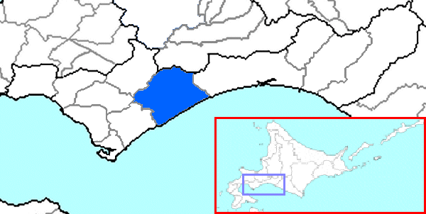 The location of Shiraoi in Iburi Subprefecture, Hokkaido Prefecture, Japan.